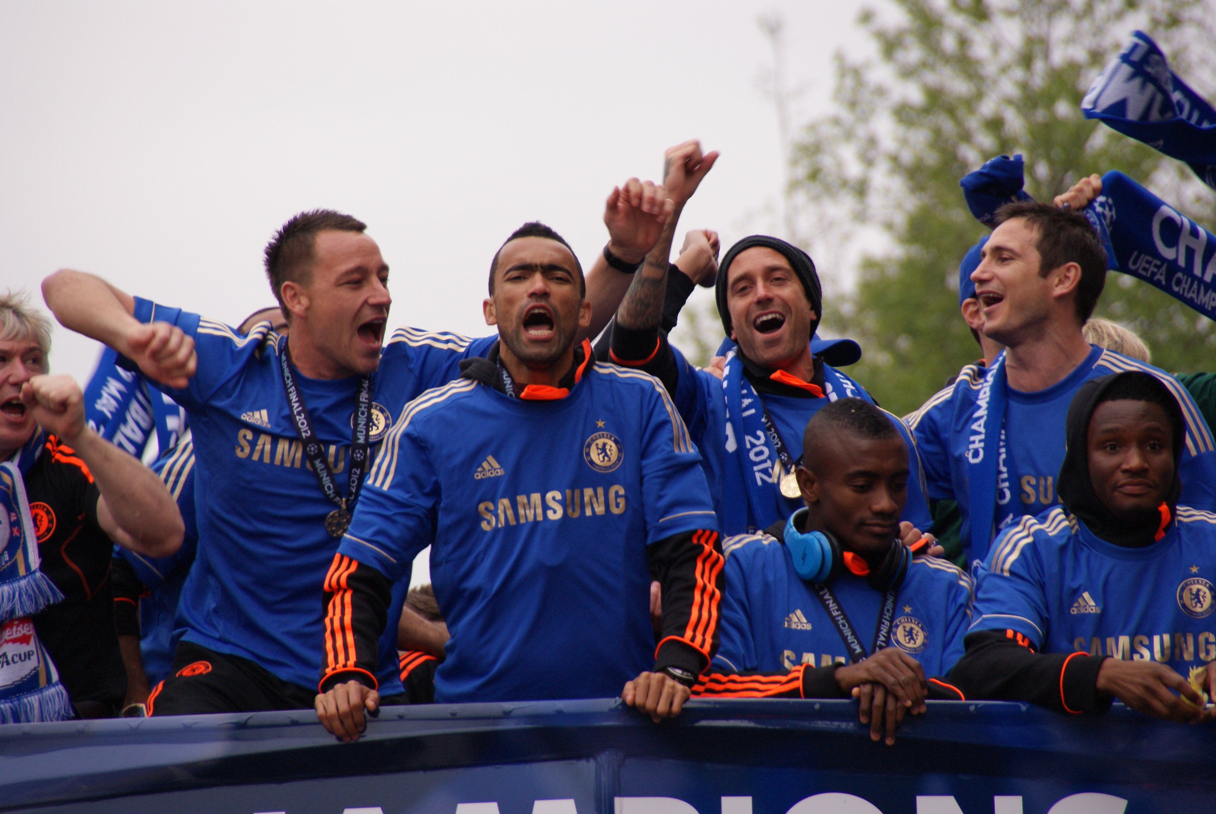 This photo was taken on Sunday 20th May 2012 during the Chelsea Football Club Parade following Chelsea's victory in the European Champions League Final.